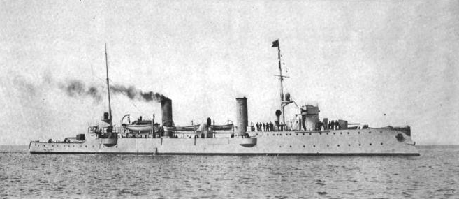 One of the two Peyk-i Şevket class torpedo cruisers underway c. 1907–09